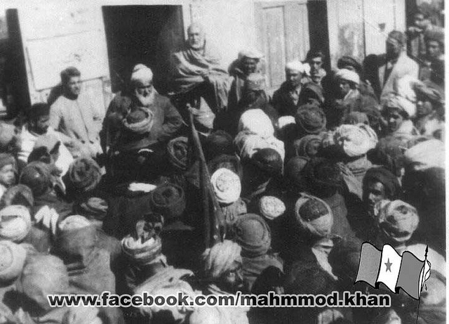 A corner meeting of Anjuman-i-Watan under chairmanship of Abdul Samad Khan Achakzai held in Loralai Town in 1936. Baran Khan had also participated in that meeting.